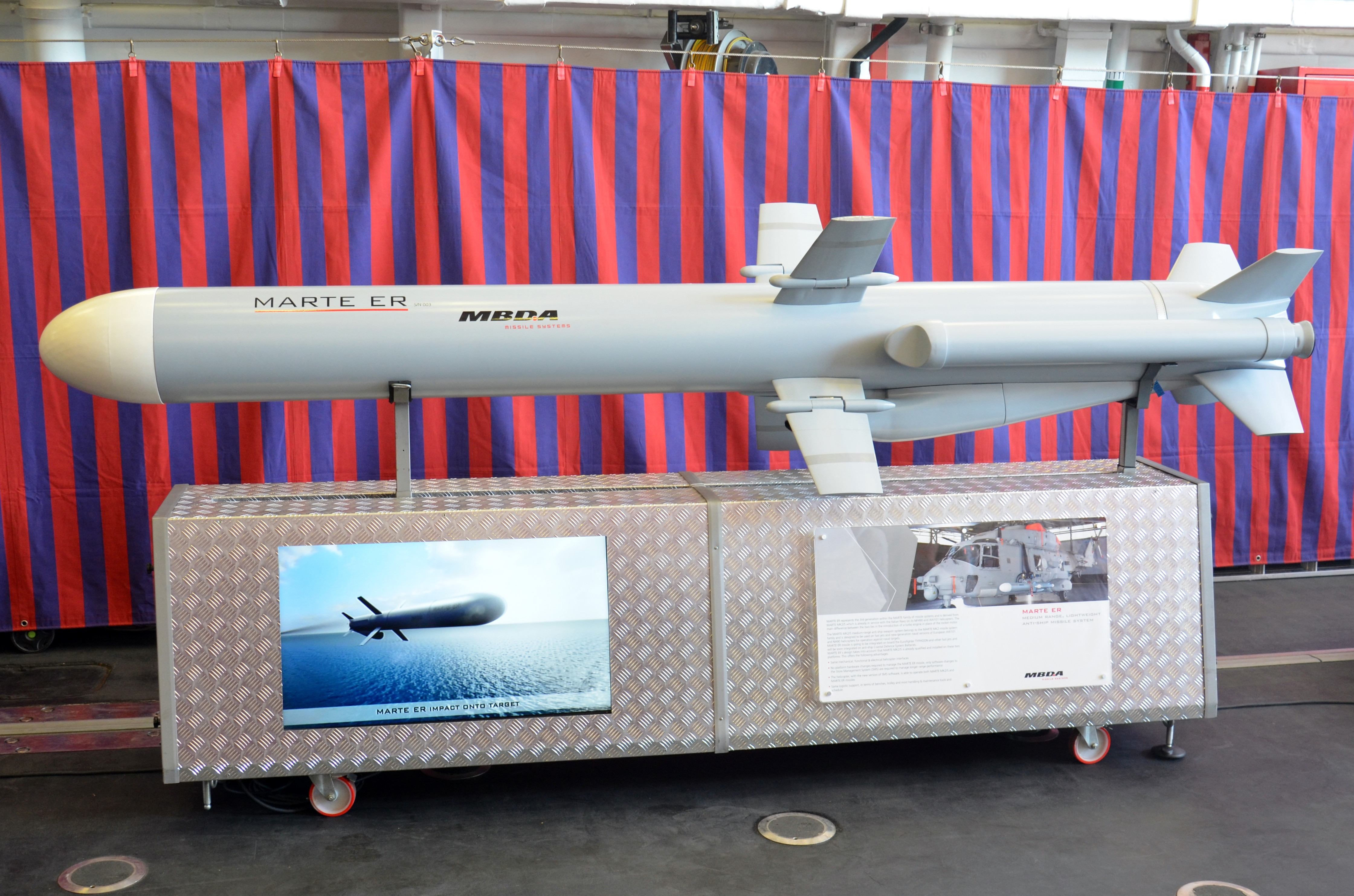 View of a Marte ER missile on display inside the hangar of Italian frigate Carabiniere (F593), at Victoria Quay, in the inner harbour of the Port of Fremantle, Western Australia